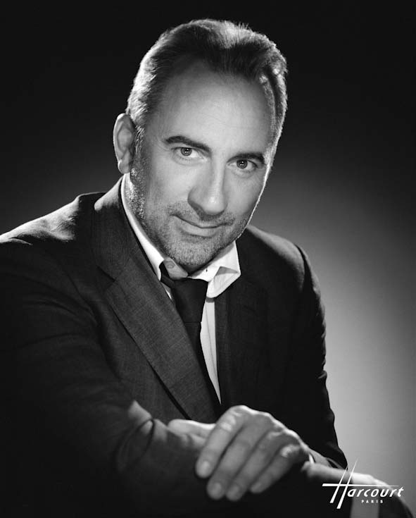 Antoine Duléry photographed by Studio Harcourt Paris